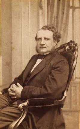 Carl Christian Burmeister (1821-1898), Danish mechanic and industrialist, co-founder of Burmeister & Wain